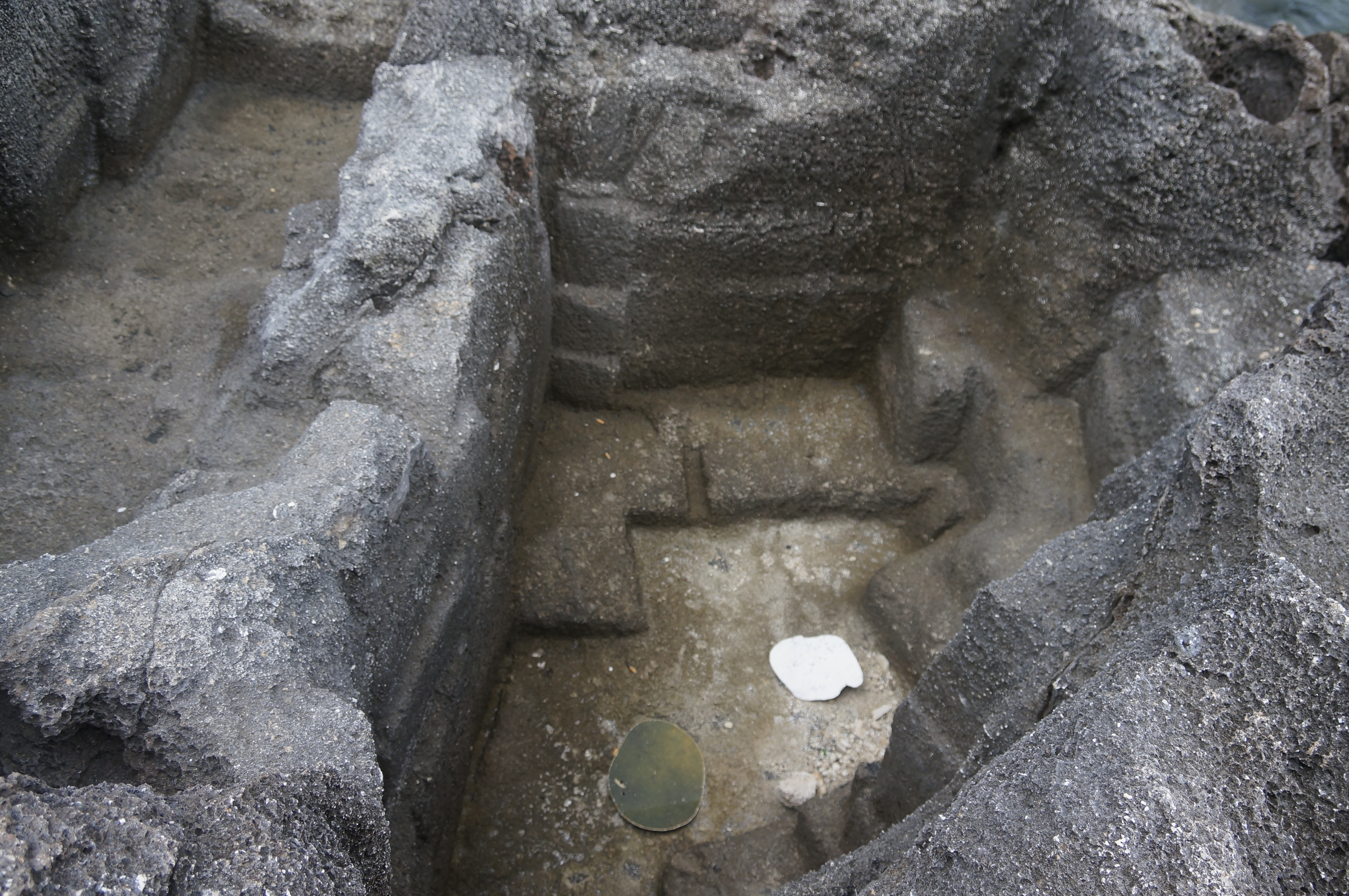 Marina Serra